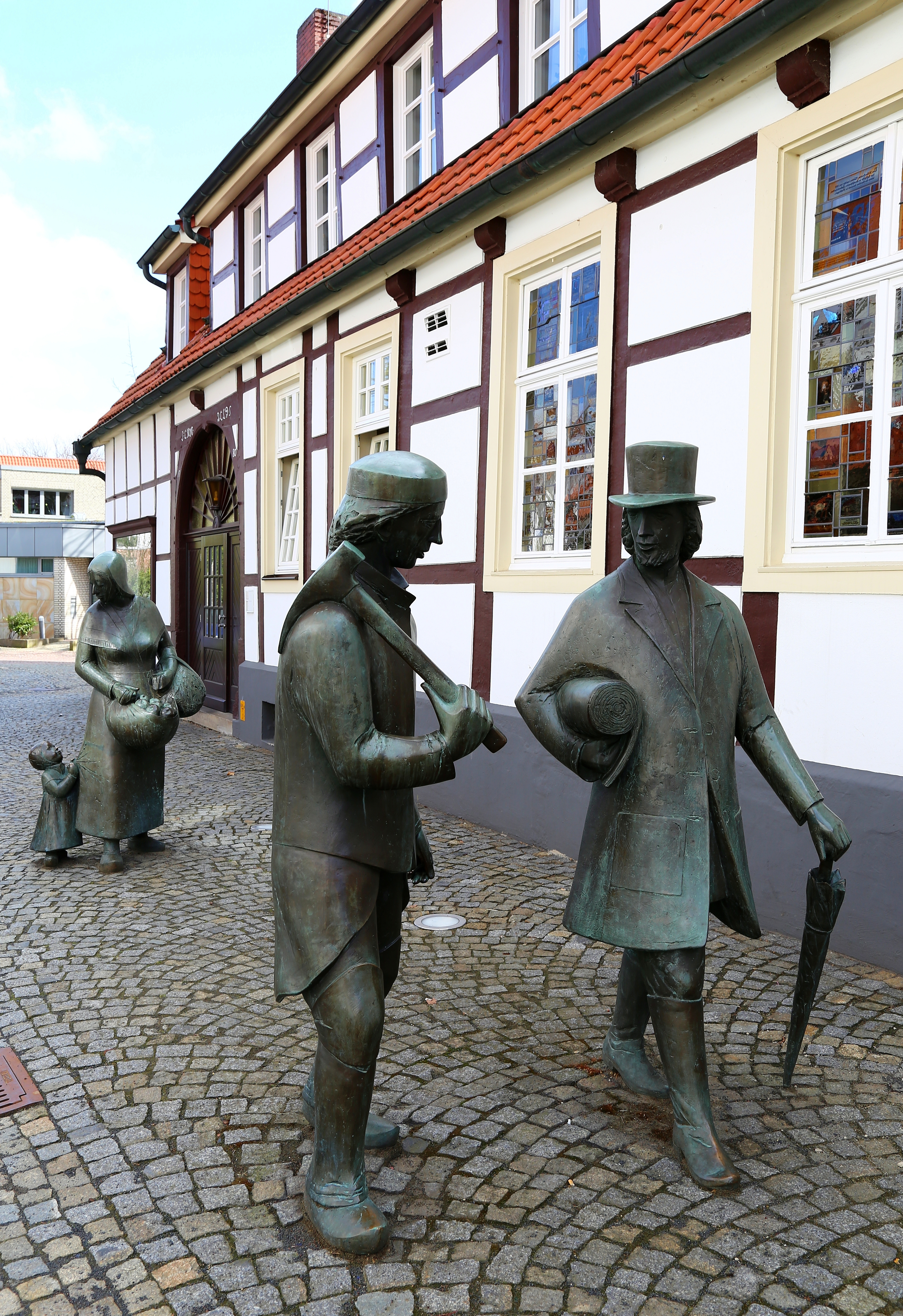 Sculpture group (left to right: miner, peasant woman with child and Tüötte [merchant]), a work of Anne Daubenspeck-Focke (1988), at Haus Telsemeyer in Mettingen, Kreis Steinfurt, North Rhine-Westphalia, Germany.